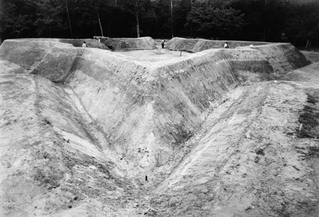 Fort Raleigh National Historic Site, Manteo vicinity, Dare County, NC. Perspective view of earthen ramparts during reconstruction. 35°56′18″N 75°42′32″W / 35.93833°N 75.70889°W